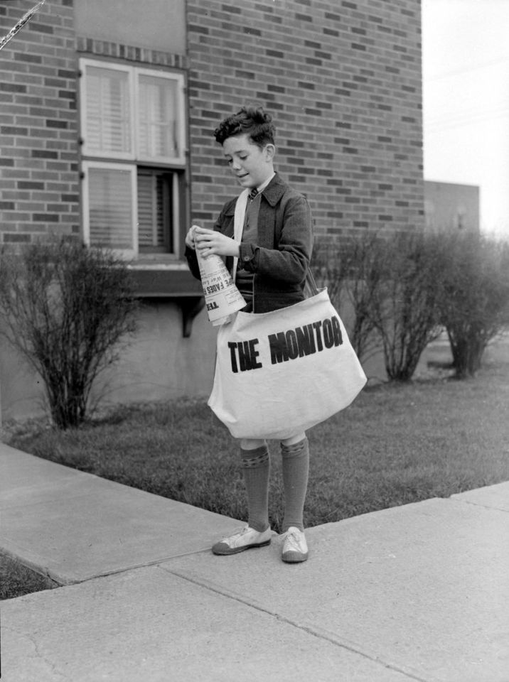 The hawker John Murray, shoulder bag, distributes "The Monitor" newspaper in the streets of Montreal.